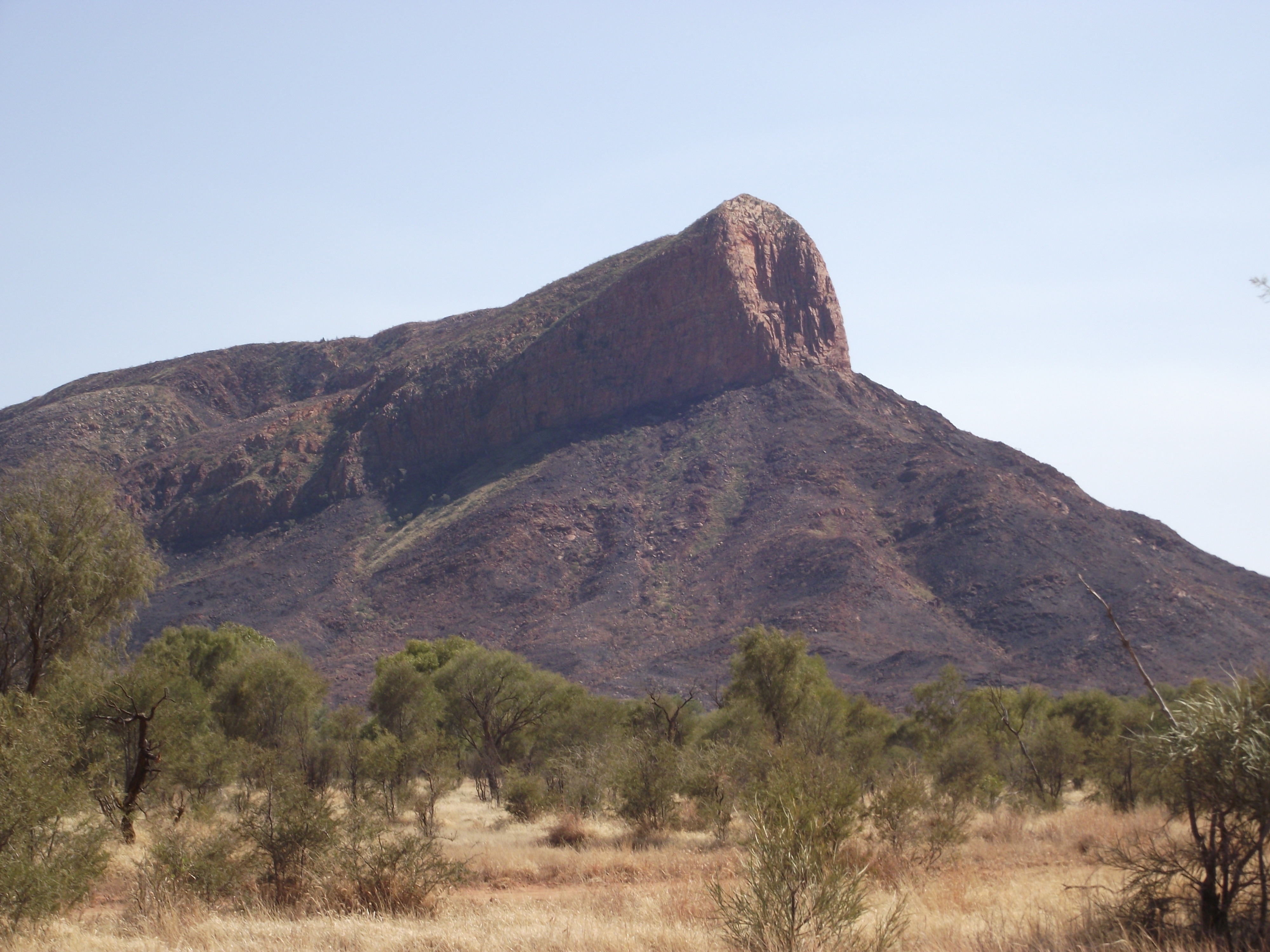 Haasts Bluff is clearly visible as you drive from Glen Helen Resort to Papunya. It is just past turn off to Haasts Bluff community and Papunya, heading to Papunya. There had been a bush fire which enabled us to see the formation of Haasts Bluff more clearly by removing all the undergrowth. The cliff is made of sandstone. It is part of the Heavitree Quartzite of Precambrian (Neoproterozoic) age. (source:Geological Map of the Hermannsburg area